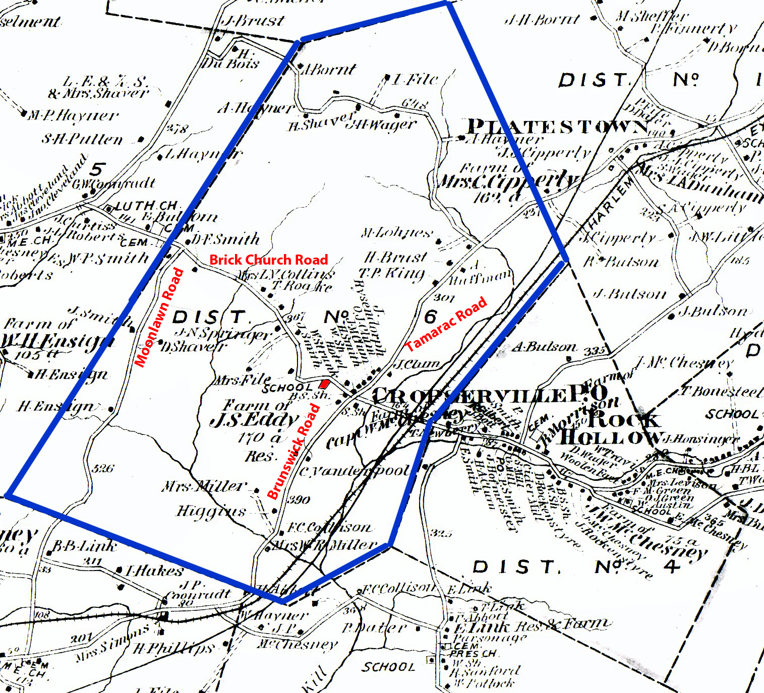 Map of Brunswick District #6 school district, incorporated into Brunswick (Brittonkill) Central School District in 1955, located in Brunswick, New York, United States Little Red Schoolhouse property District boundary Road Current road name